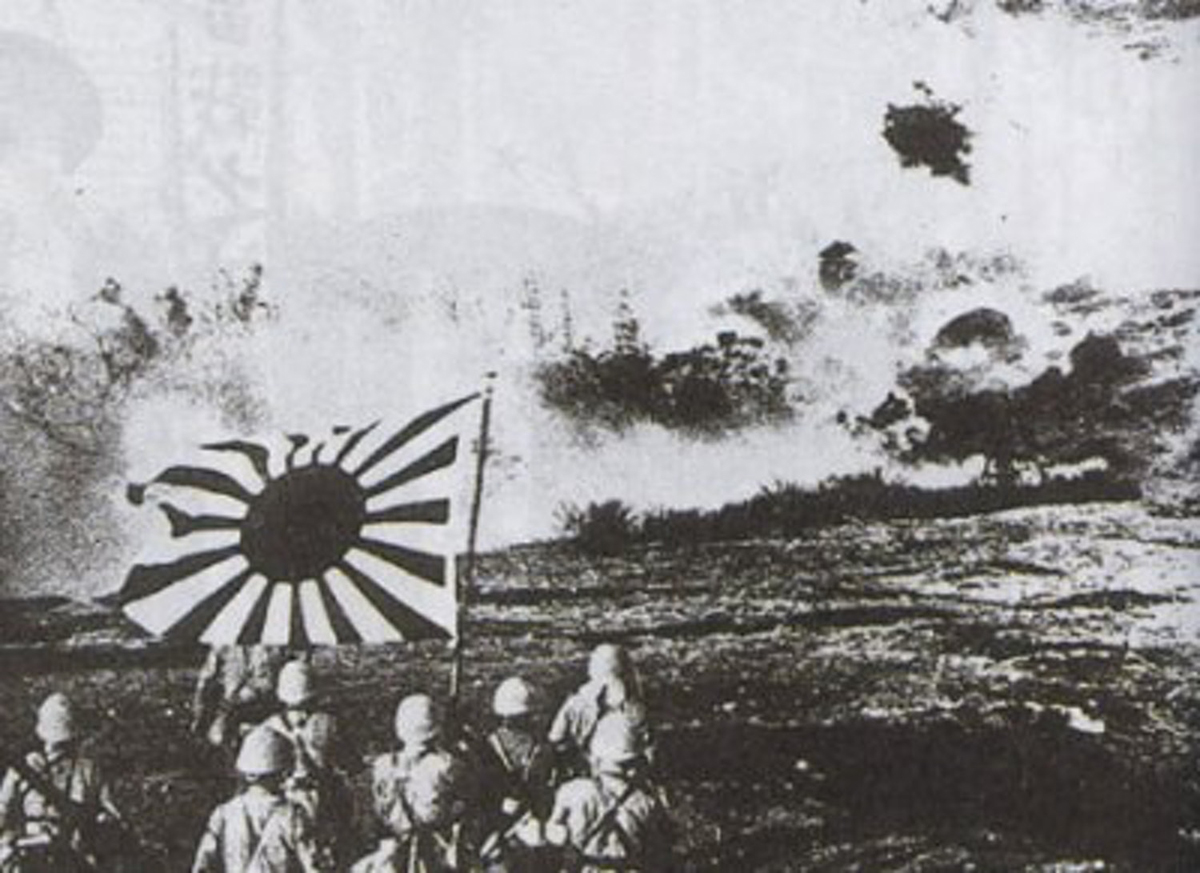 Japanese naval landing force blasting Chinese pillbox and marching with the naval flag during the Canton Operation